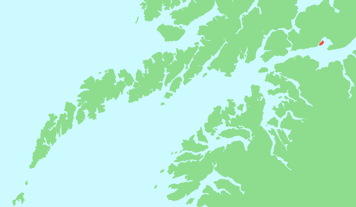 Locator map of Skogøya, Nordland, Norway